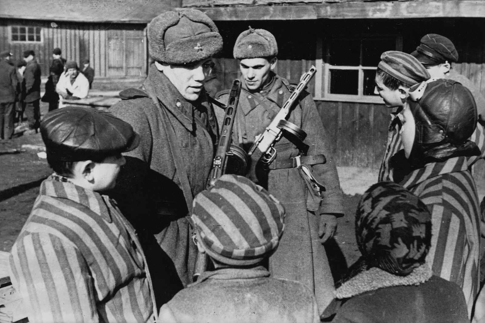 Soviet Army soldiers chatting to the children just liberated from the Auschwitz concentration camp